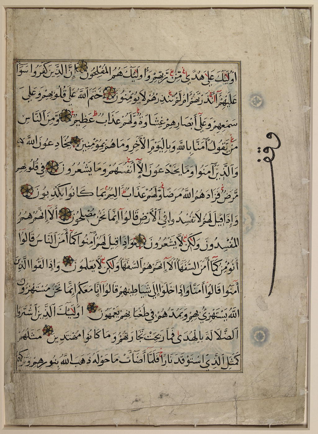 The verses 5-17 of the second chapter of the Qur'an entitled al-Baqarah (The Cow). The text is written in the cursive script called naskh, and each verse is separated by an ayah marker consisting of a gold six-petalled rosette with blue and red dots on its perimeter. Both the script and the illumination are typical of Qur'ans produced in Mamluk Egypt during the 14th and 15th centuries. Recitation markers signaling where not to stop recitation ("la" or "no stopping") are marked in red above the first two verse markers.